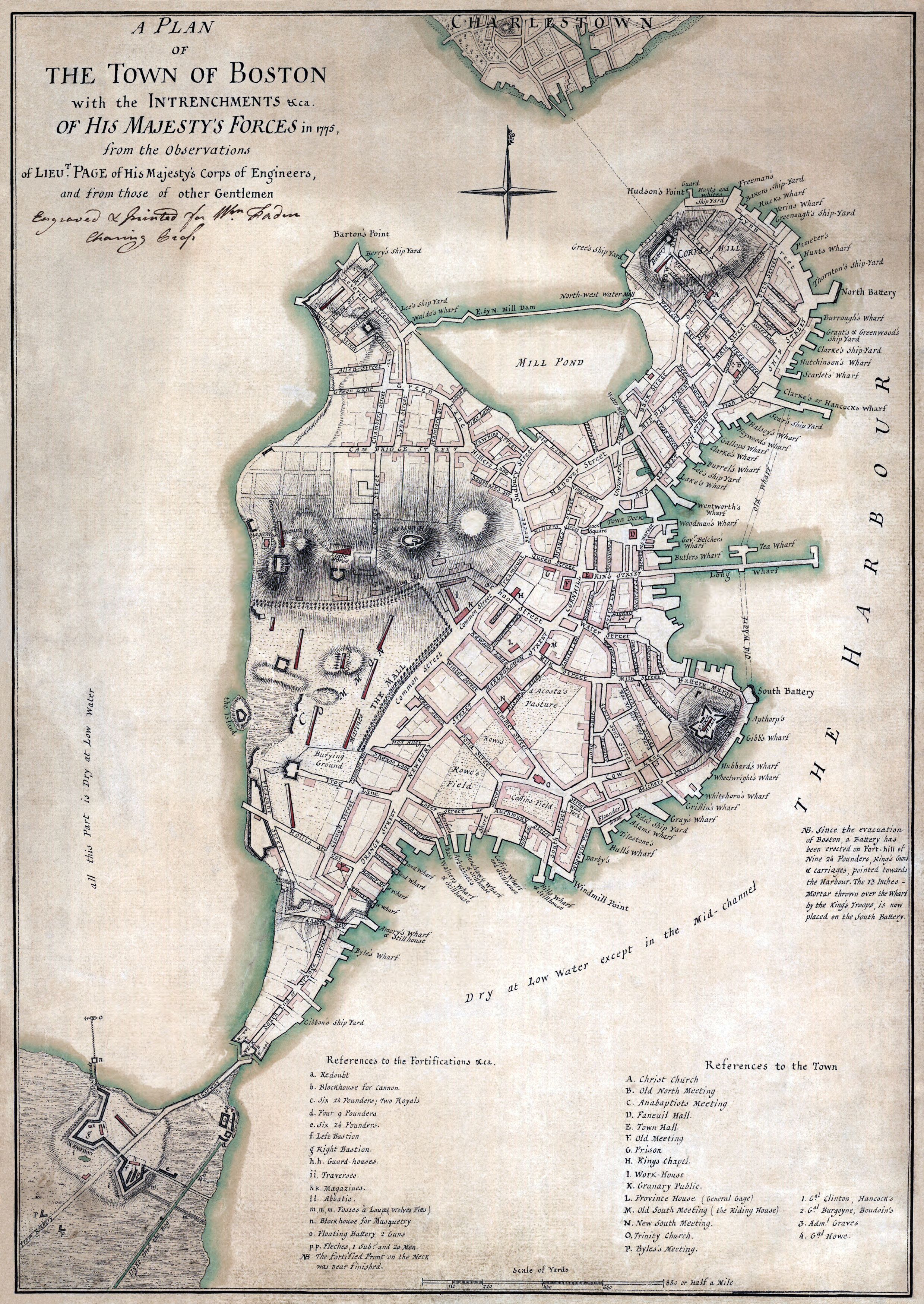 "A plan of the town of Boston with the intrenchments &ca. of His Majesty's forces in 1775, from the observations of Lieut. Page of His Majesty's Corps of Engineers, and from those of other gentlemen."